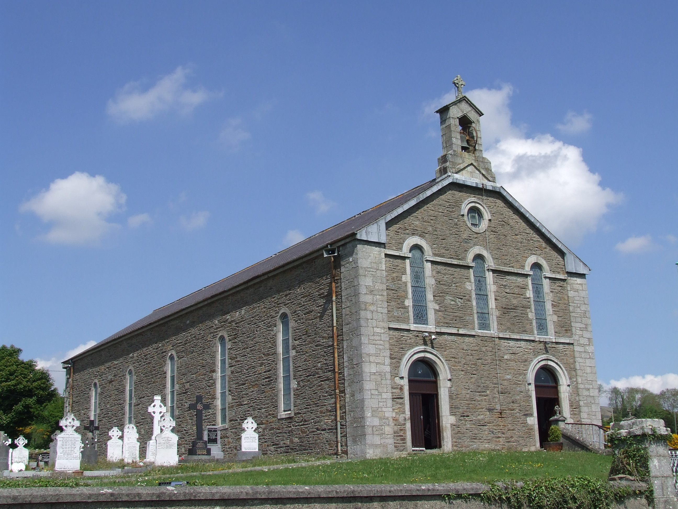 St. Kevin's Church, Kilavaney parish, in the Diocese of Ferns. It is located in the southern Wicklow village of Tinahely.